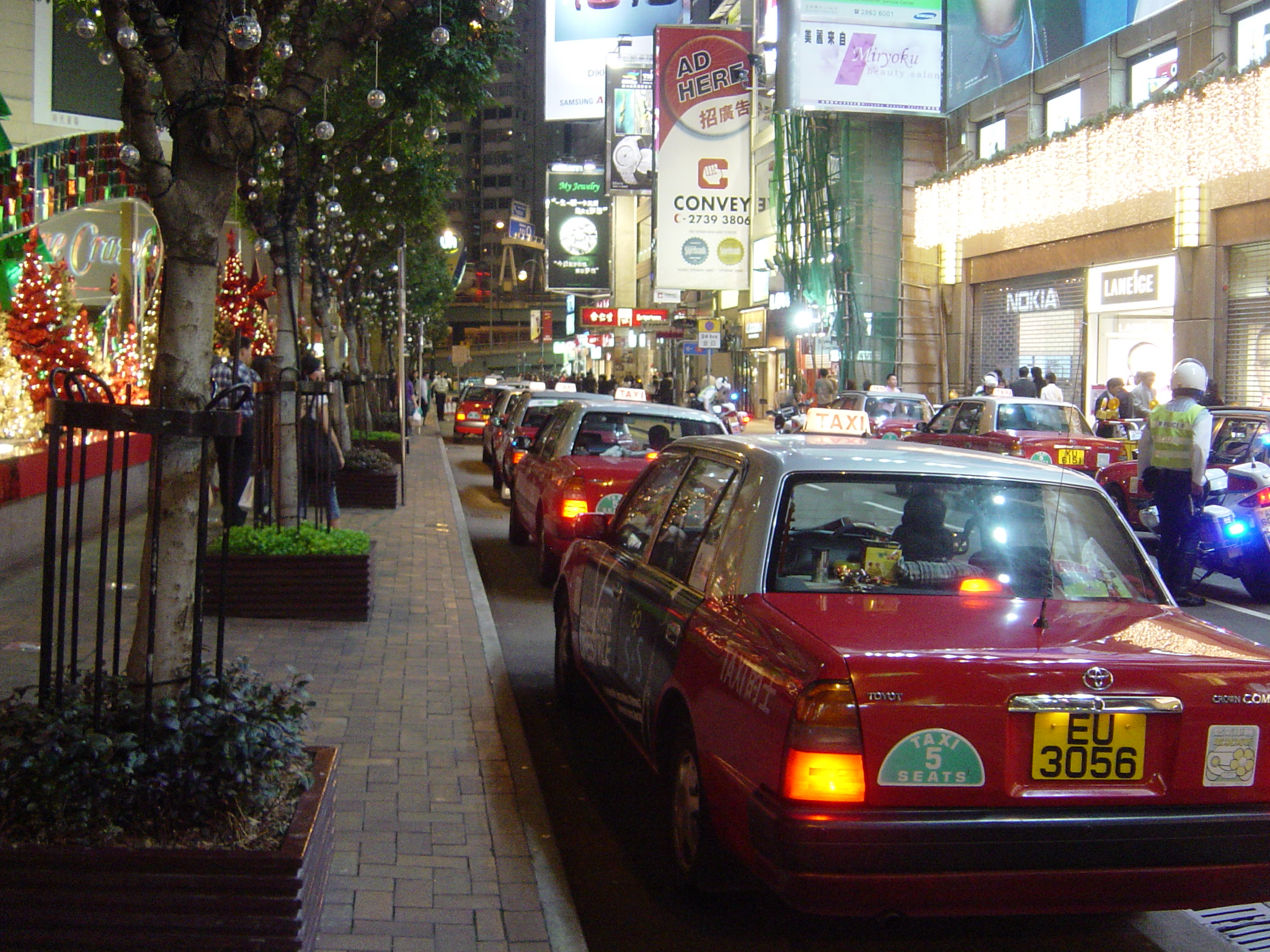 香港銅鑼灣時代廣場的士站。Taxi stand near Times Square, Causeway Bay, Hong Kong.